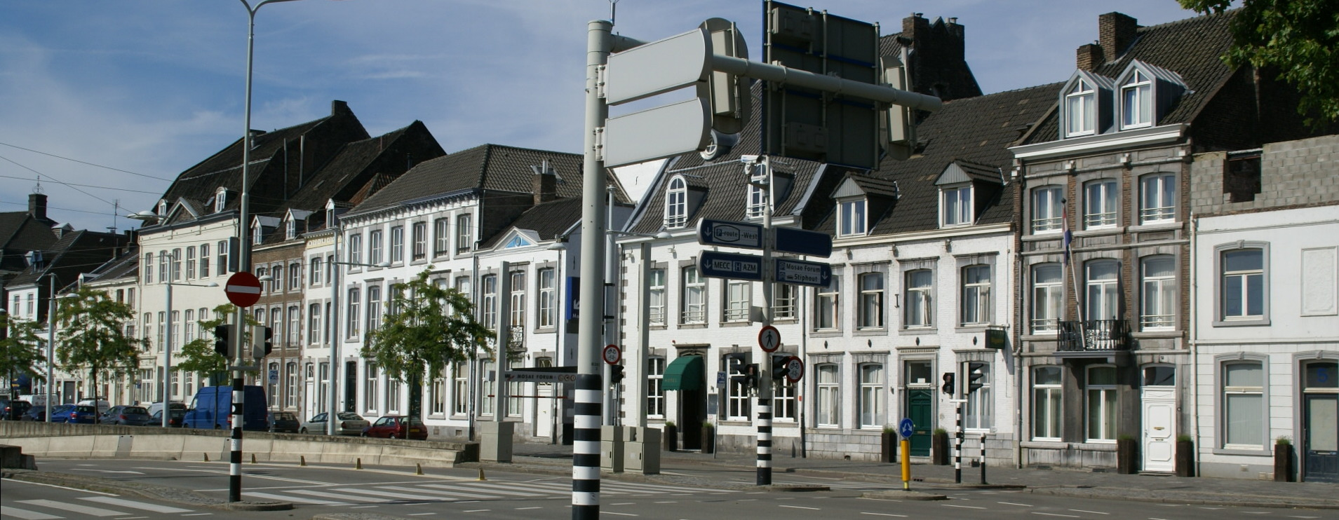 Maasboulevard and Van Hasseltkade in Maastricht, Netherlands